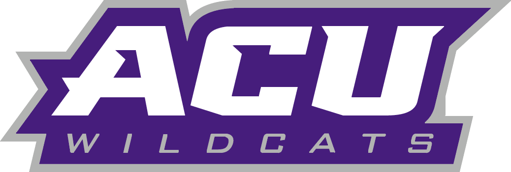 Abilene Christian Wildcats Wordmark.